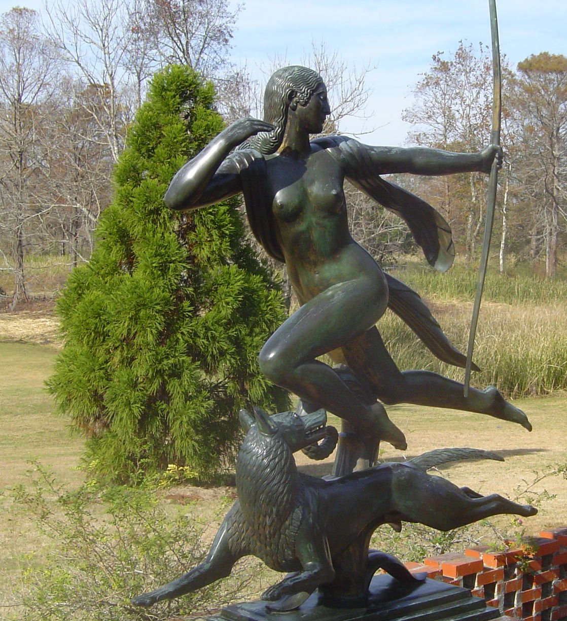 Goddess Diana hunting statue at Brookgreen Gardens